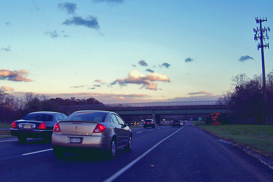 Photographed by Daniel Case 2006-10-27